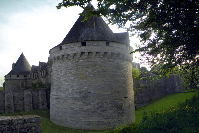 Rohan's castle in Pontivy, Brittany, France.